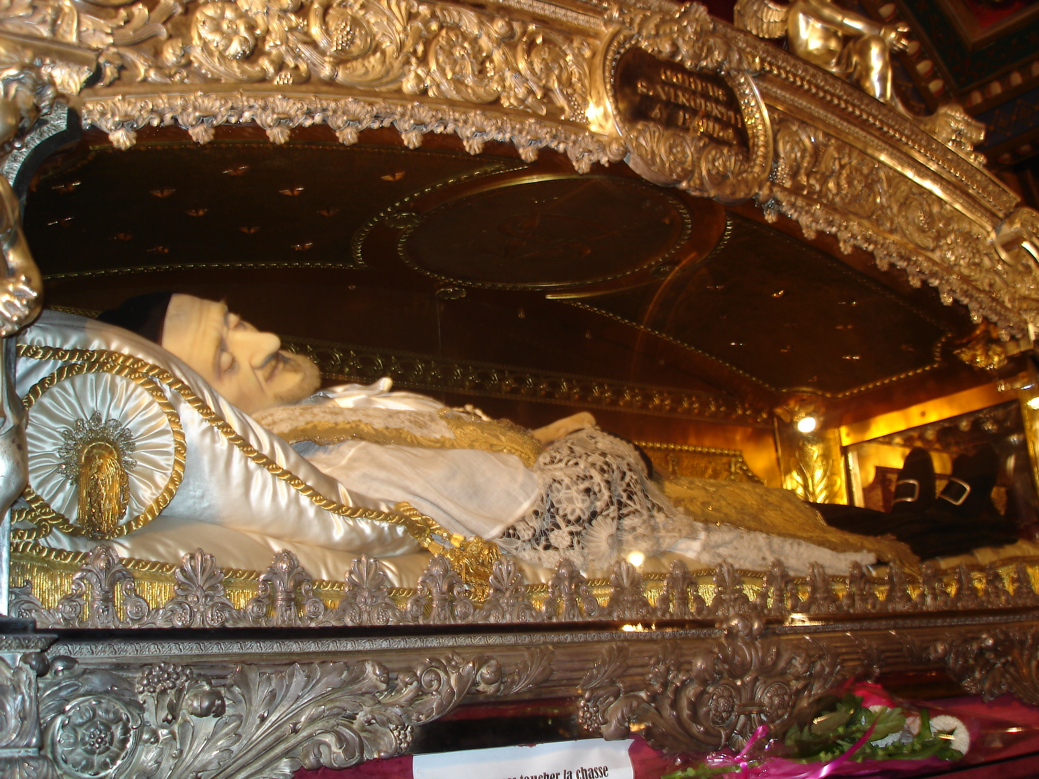 Embalmed body of St. Vincent de Paul, Paris